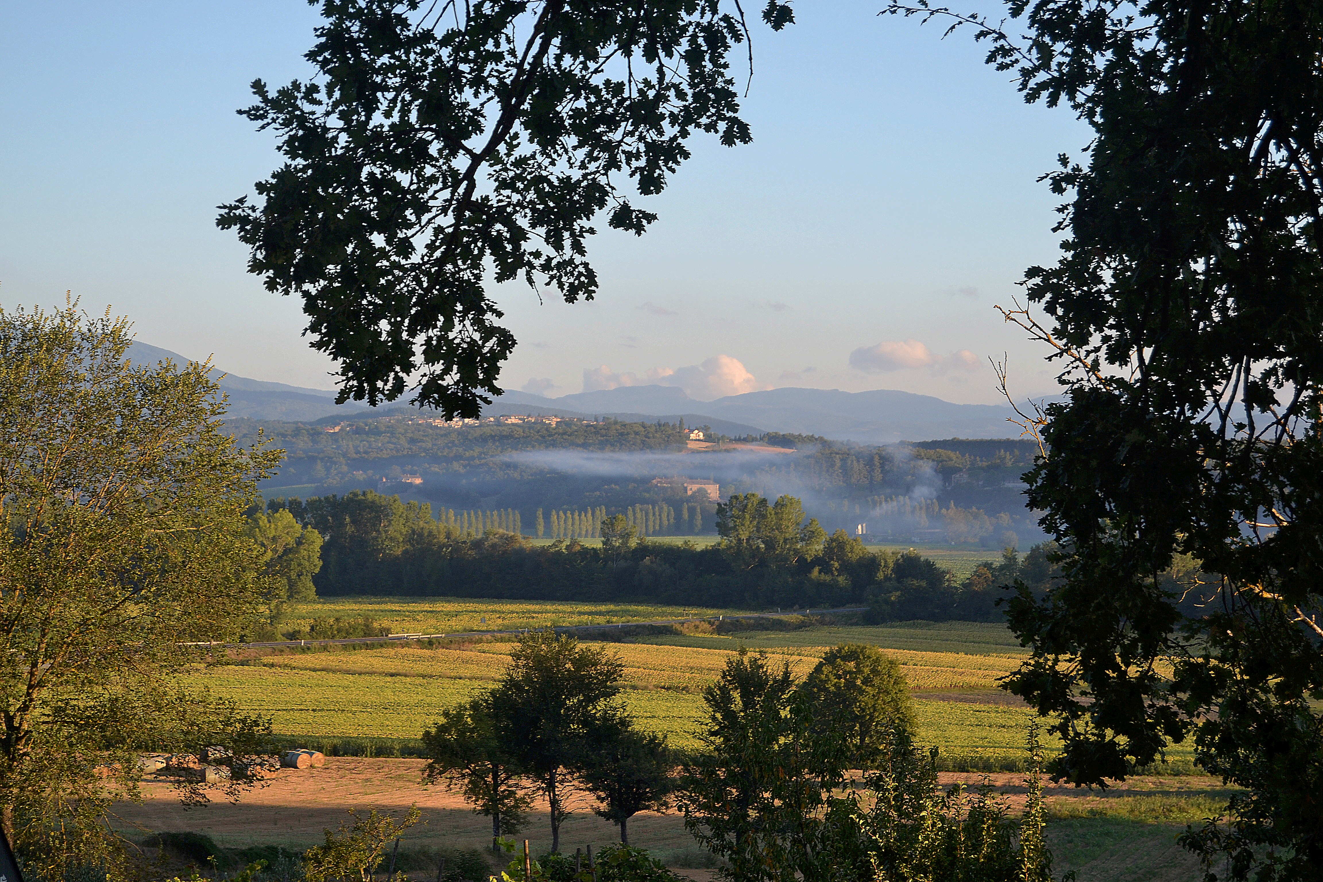 Tuscany, Italy: Late Summer morning in the Val di Chiana